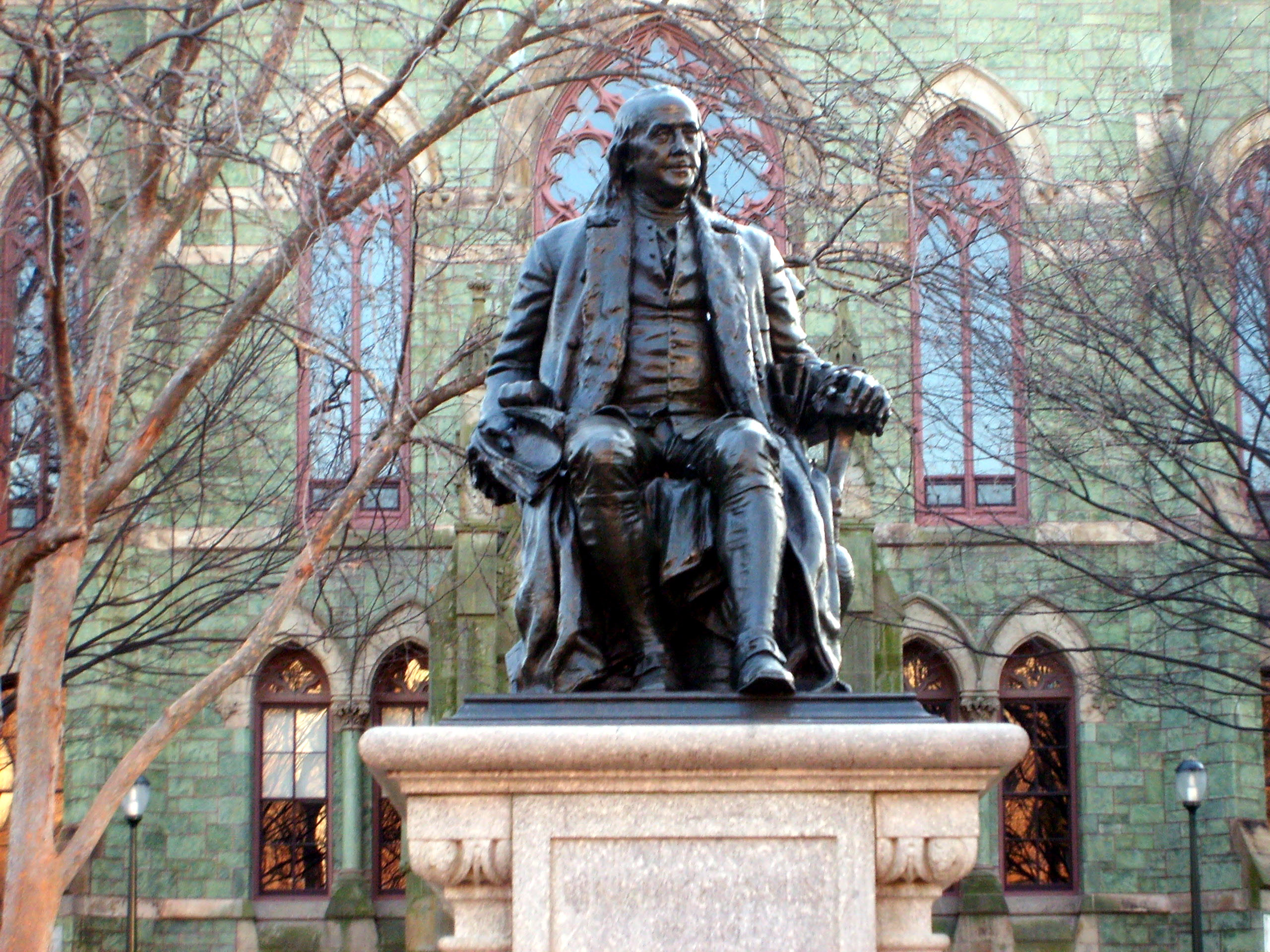 Statue of Benjamin Franklin in front of College Hall. Category:Philadelphia, Pennsylvania